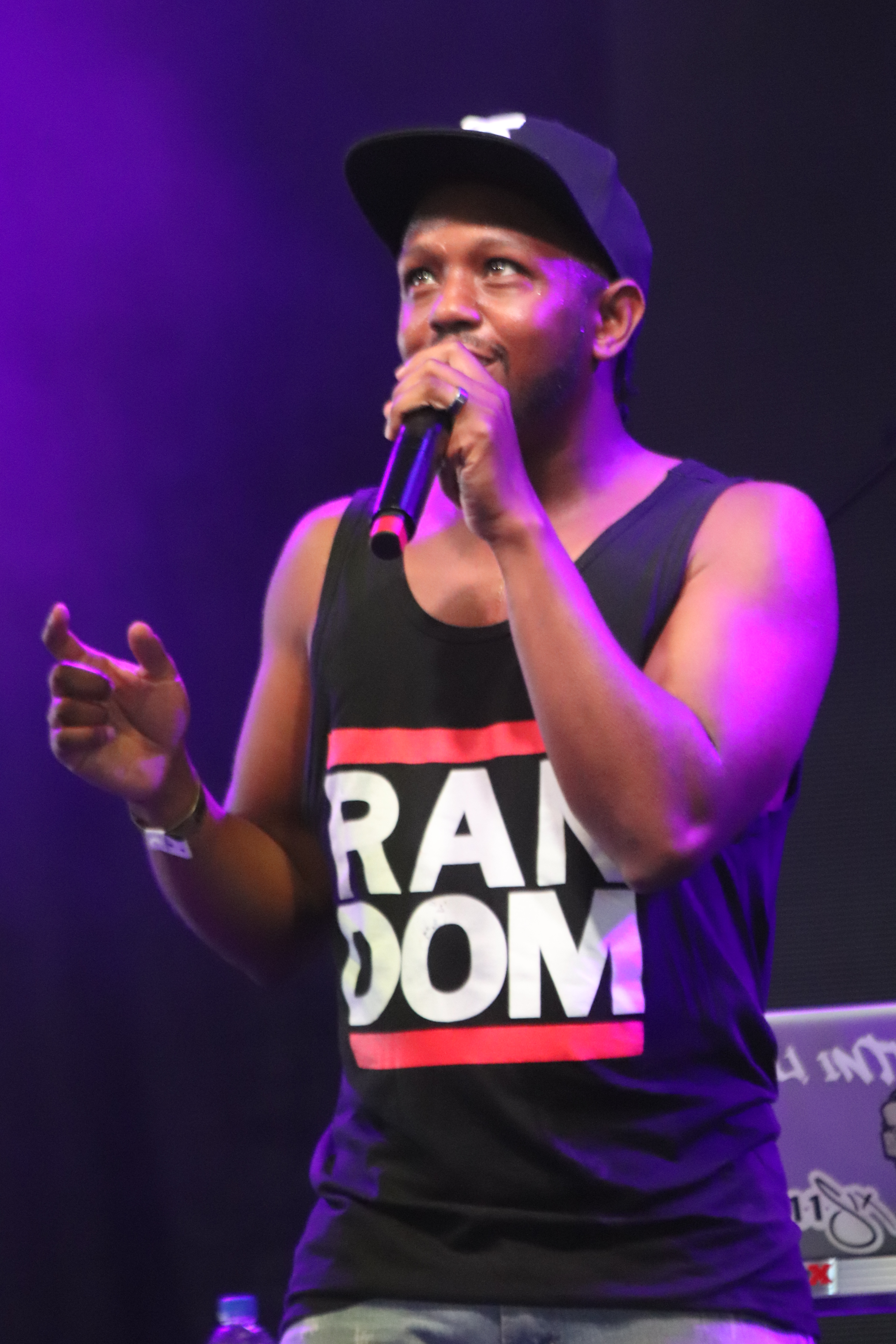 George Moss performing at Lifest.